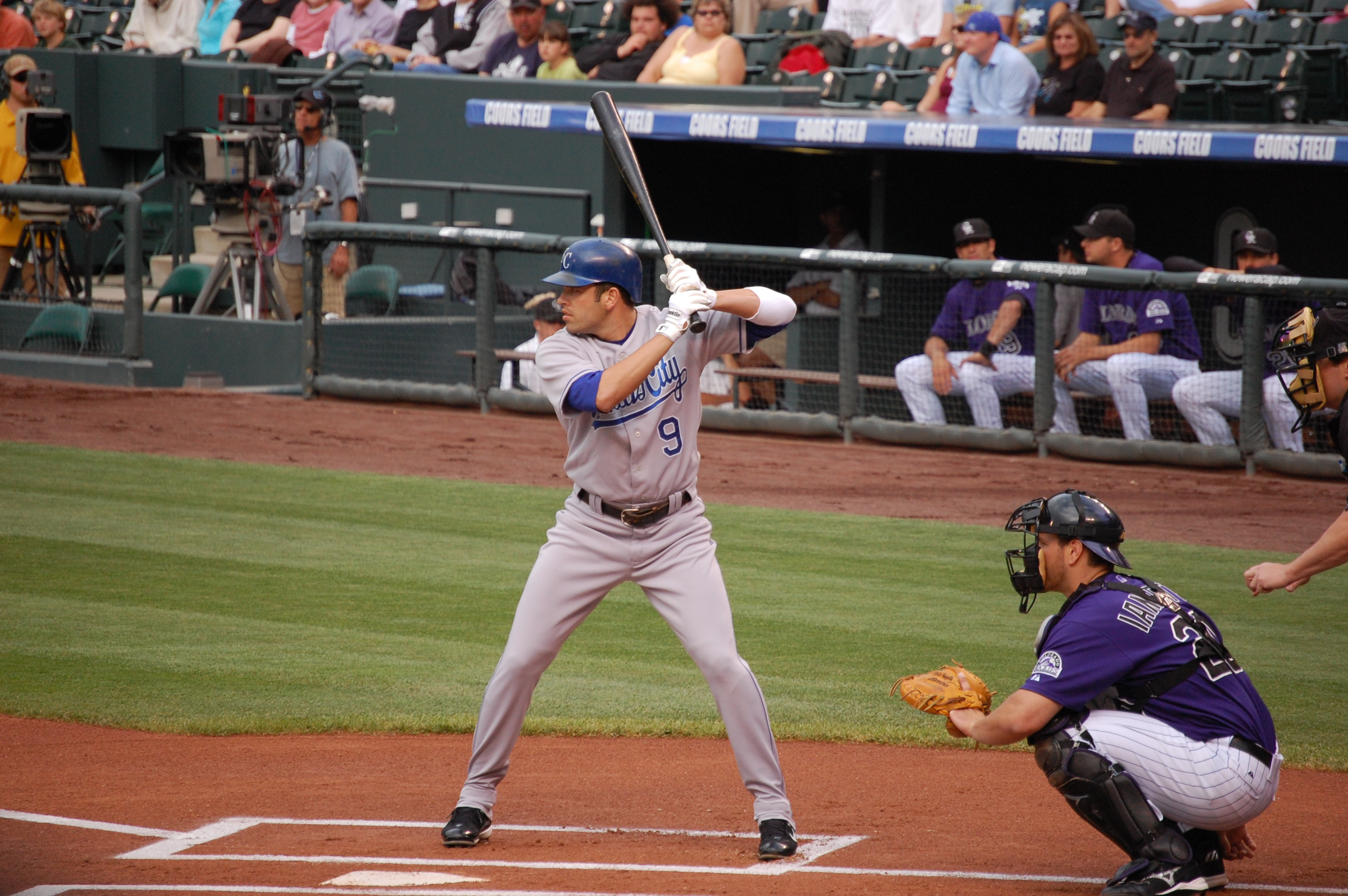 own shot, release under gfdl 06:05, 21 May 2007 . . Onetwo1 . . 3008×2000 (1,282,696 bytes)